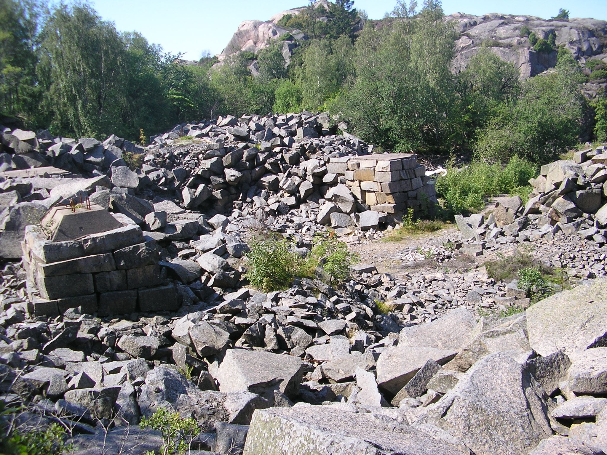 Abandoned granite quarry in Fågelviken (Härnäset, Bohuslän, Sverige).